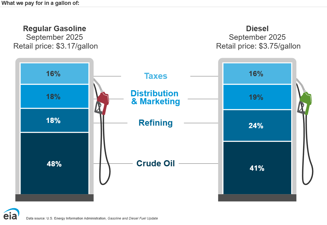 US gas and diesel prices October 2017 showing percentage source of costs. This file may be updated monthly.